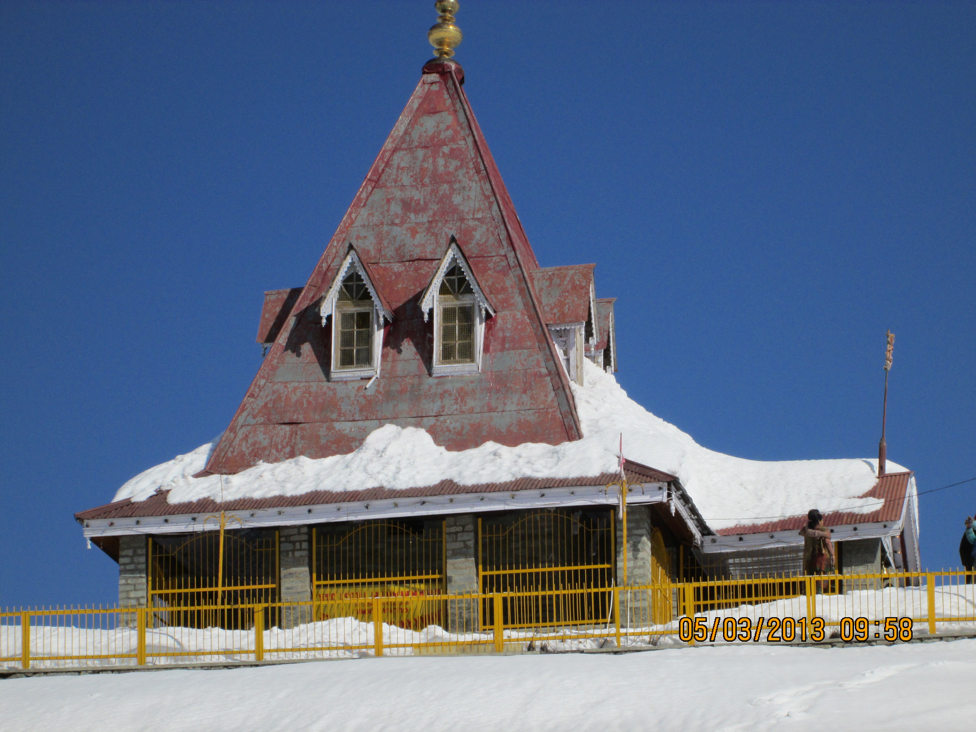 The Shiva temple was actually the royal temple of Dogra kings of Jammu and Kashmir. It is also known as the Rani Temple or Maharani Temple